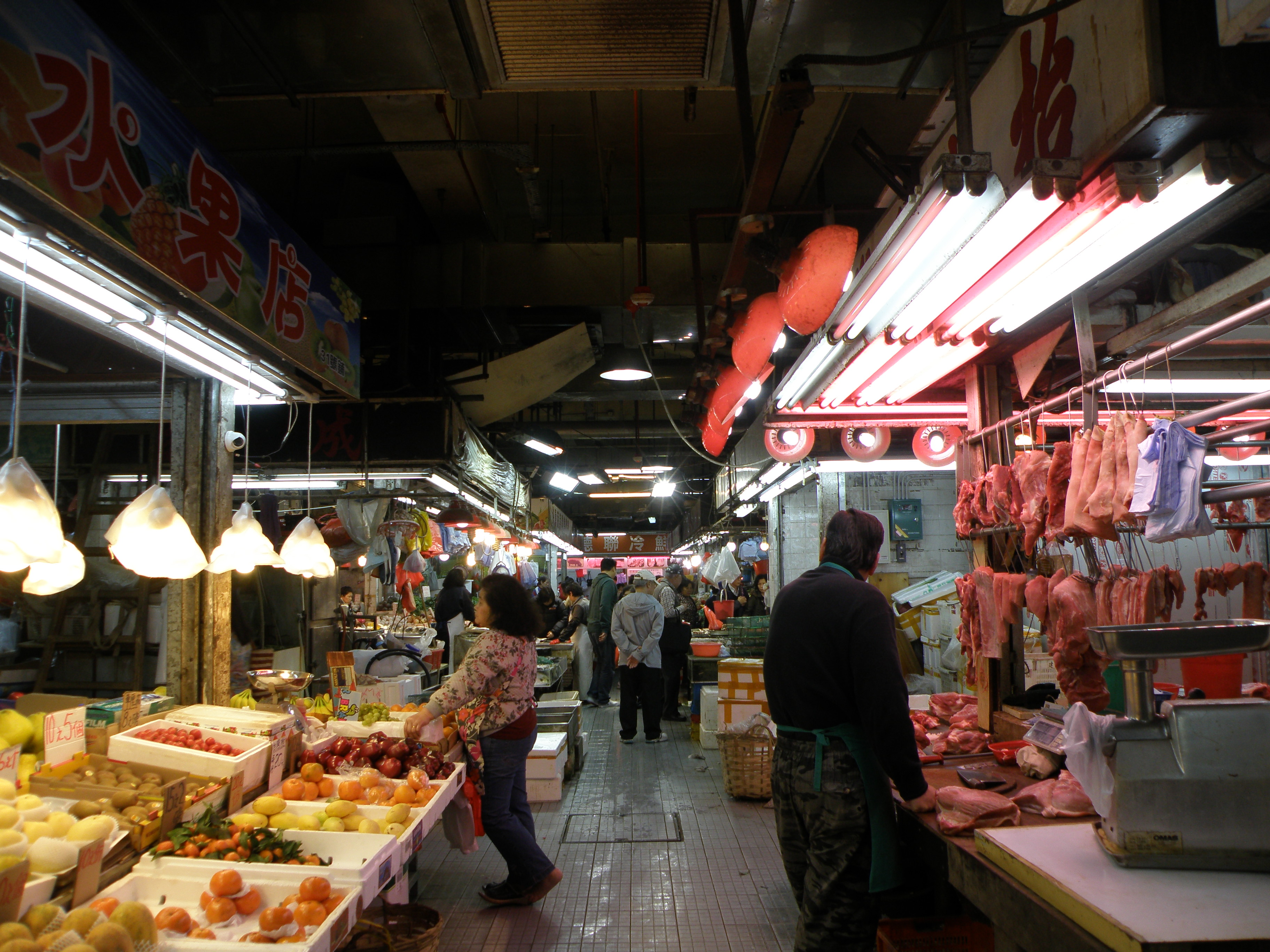 Siu Sai Wan Market in Siu Sai Wan, Hong Kong.